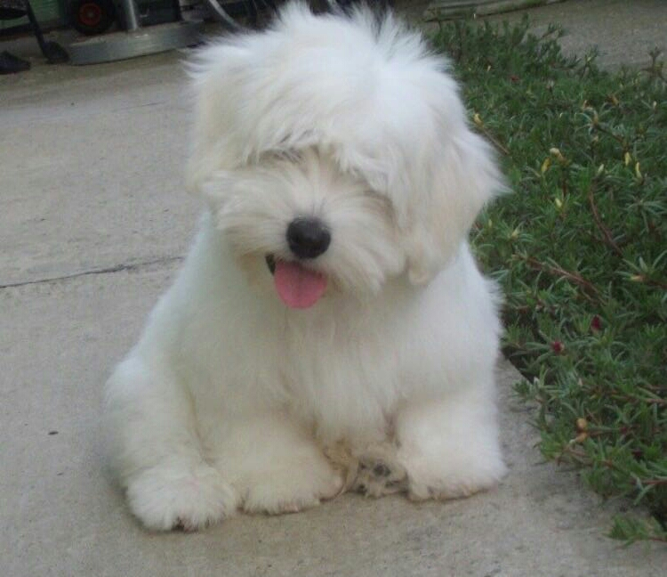 A Coton de Tulear puppy